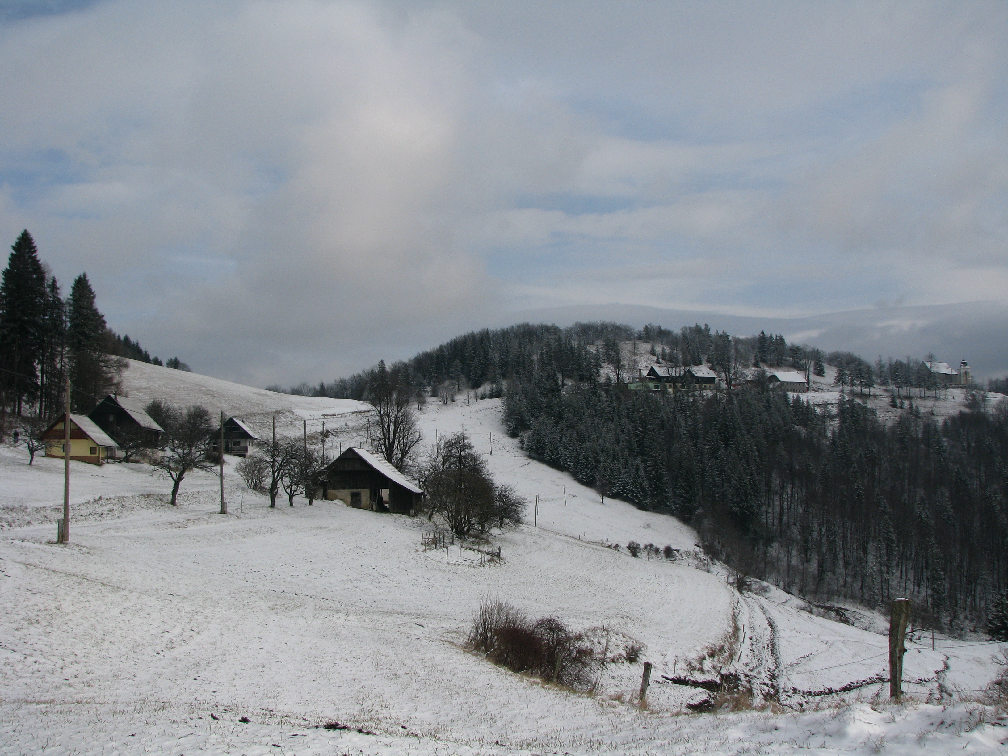 Left: hamlet of Sveta Planina village; background, right: mountain hut under hill Sveta planina (1011 m), Holy Name of Mary Church